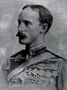 british general Sir Ian Hamilton